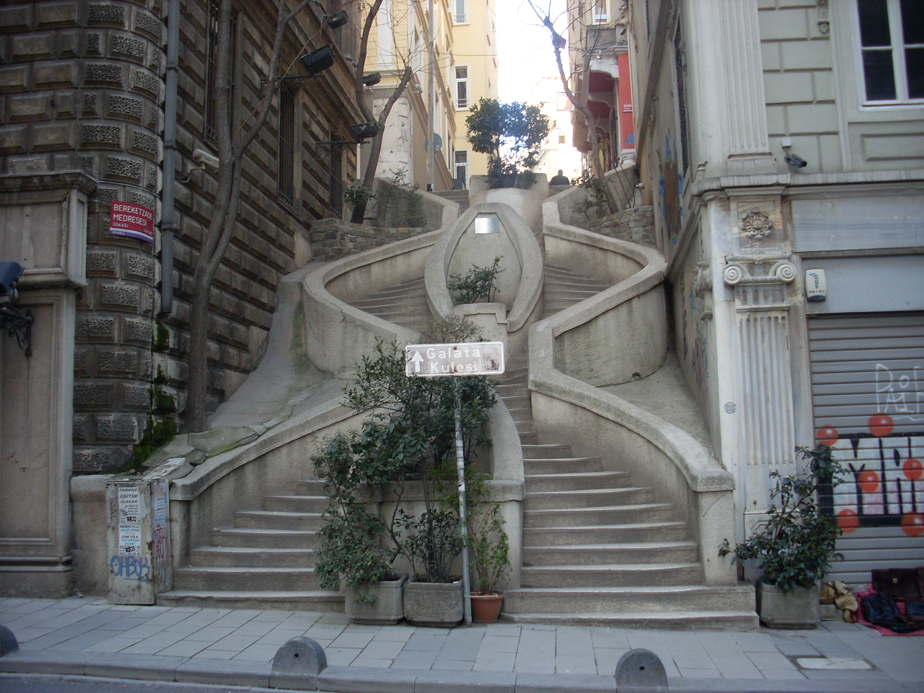 İstanbul - Camondo Stairs - Mart 2013